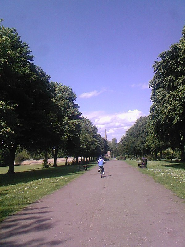 Hall Park with the spire of St Mary's Church in the far distance, Rushenden, Northants.